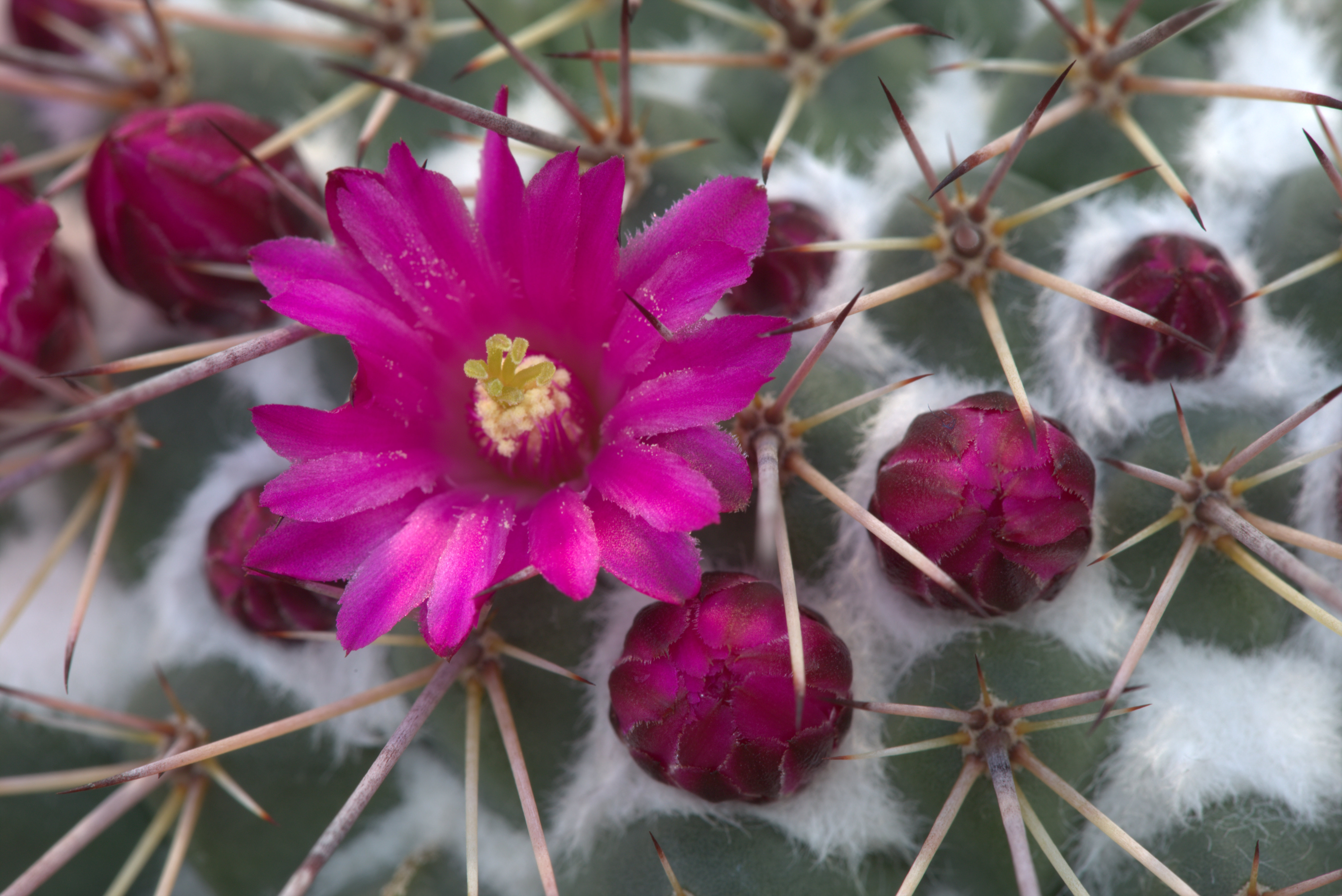 Mammillaria hertrichiana in Gotehenburg Botanical Garden in 2015. Plant id: 2009-1027 s Z -- Zür. Sukk.